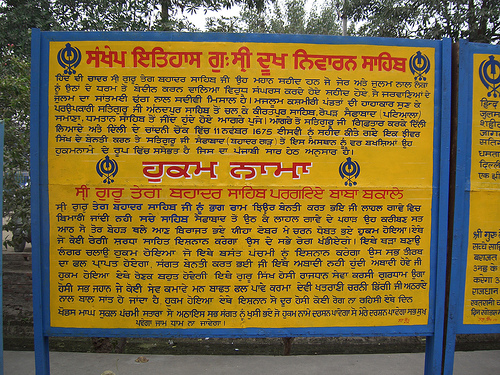 Sikhism related photo of Steel Kara - one of five articles of faith.